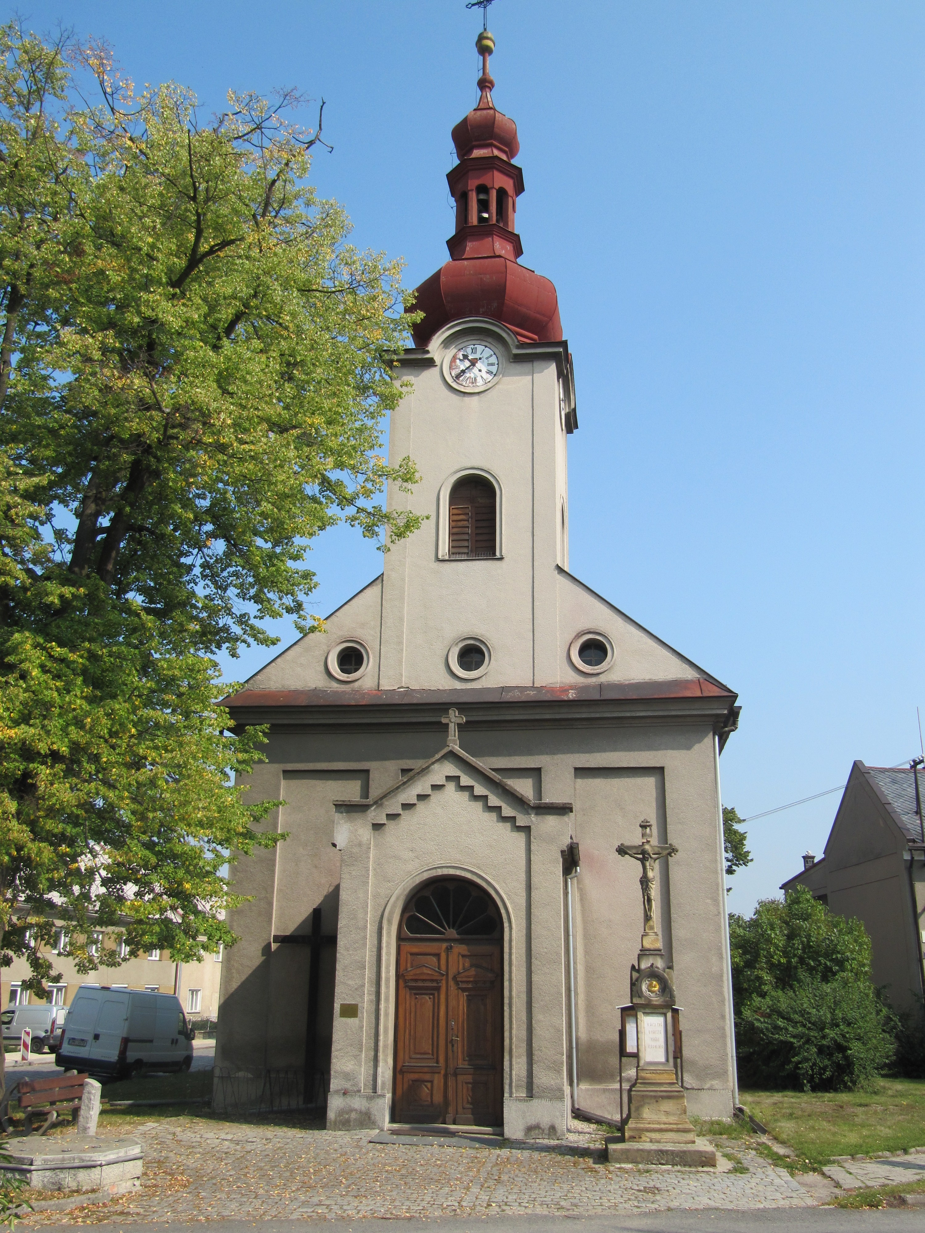 Skrbeň in Olomouc District, Czech Republic. Church of St. Florian from 1835.